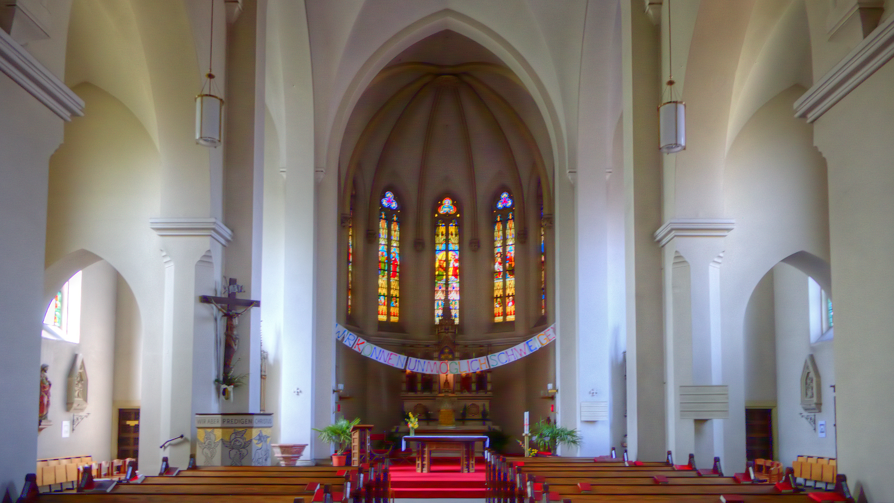 Church Hütteldorfer Pfarrkirche in Vienna Penzing